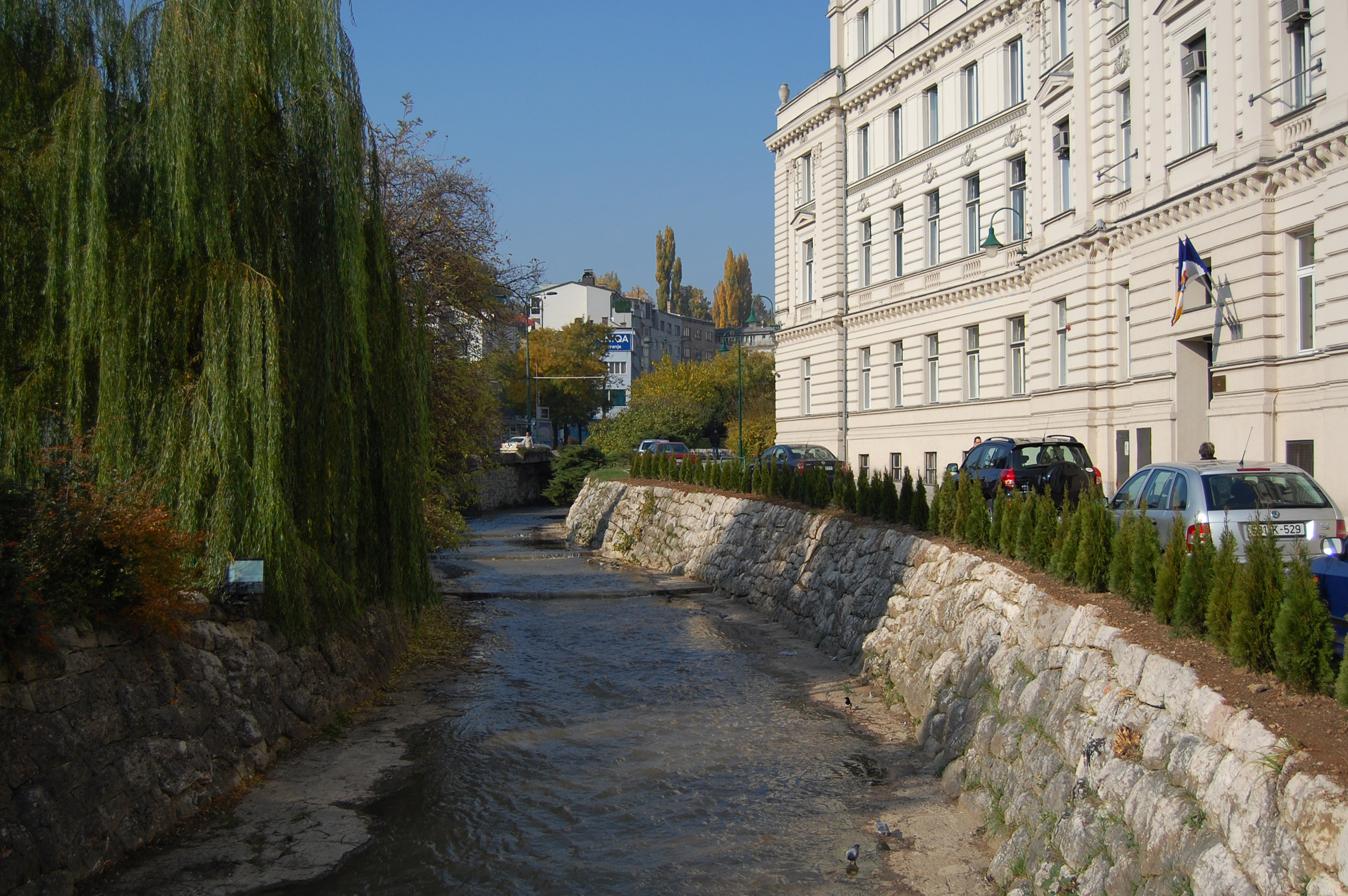 Building of Sarajevo Canton Government and Centar Municipality by the Koševo Creek